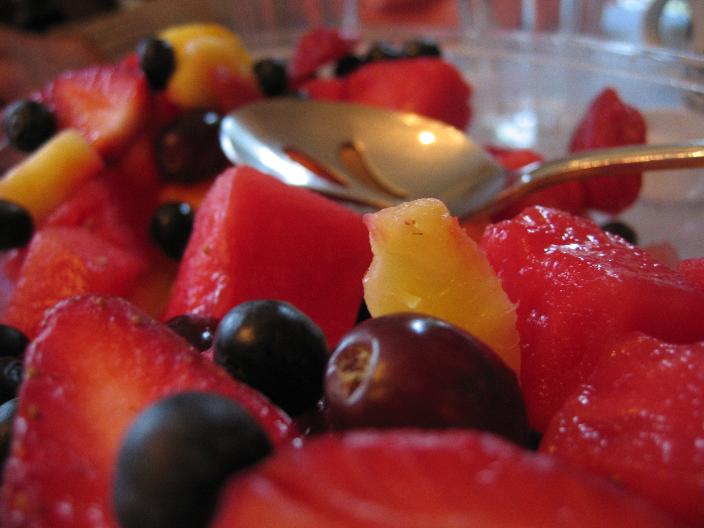 Close-up of fruit saladimg_0785